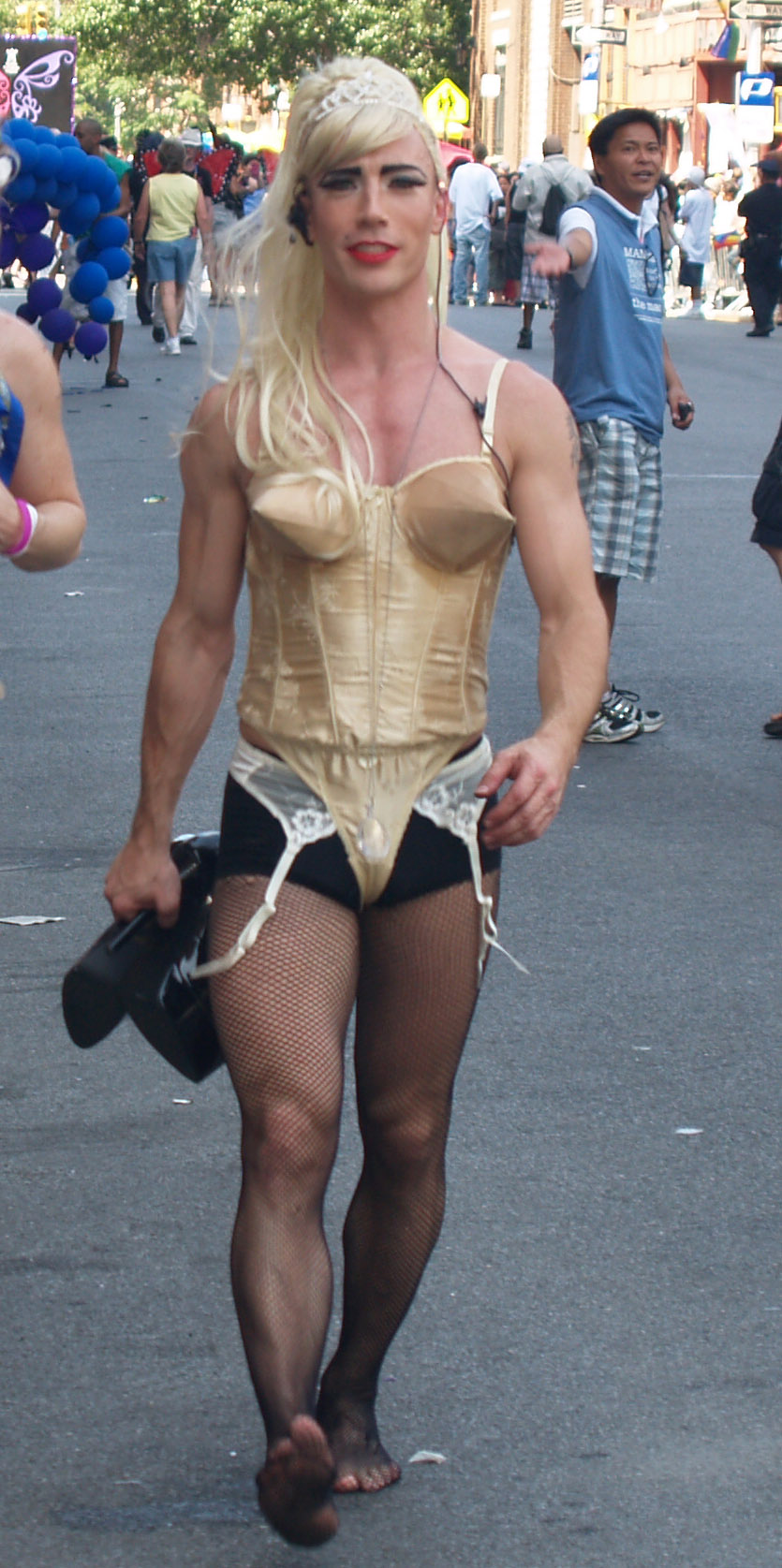 Madonna Impersonator by David Shankbone